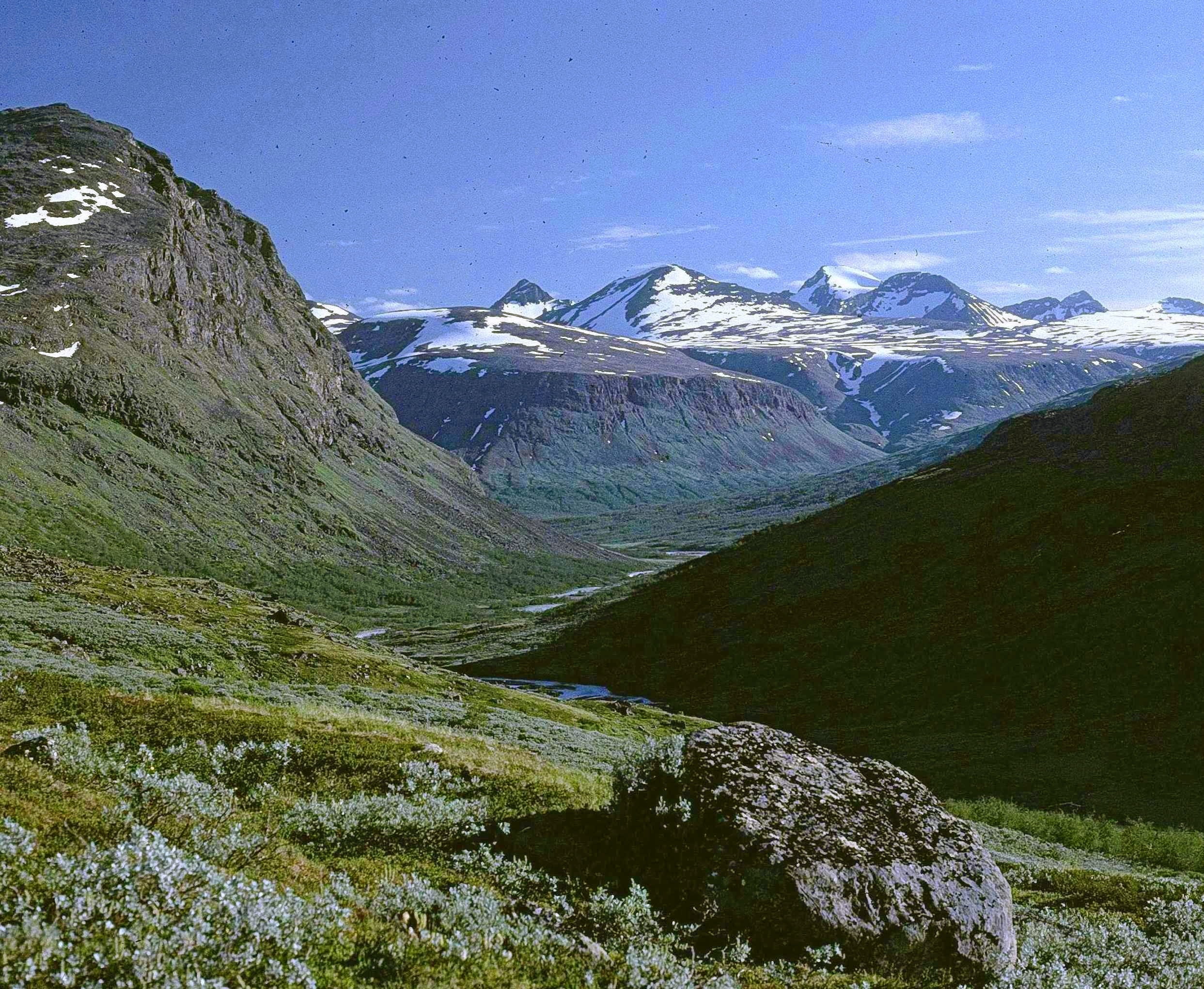 Mittre Raspadalen i Sareks nationalparg. Image of Sarek National Park, in Sweden